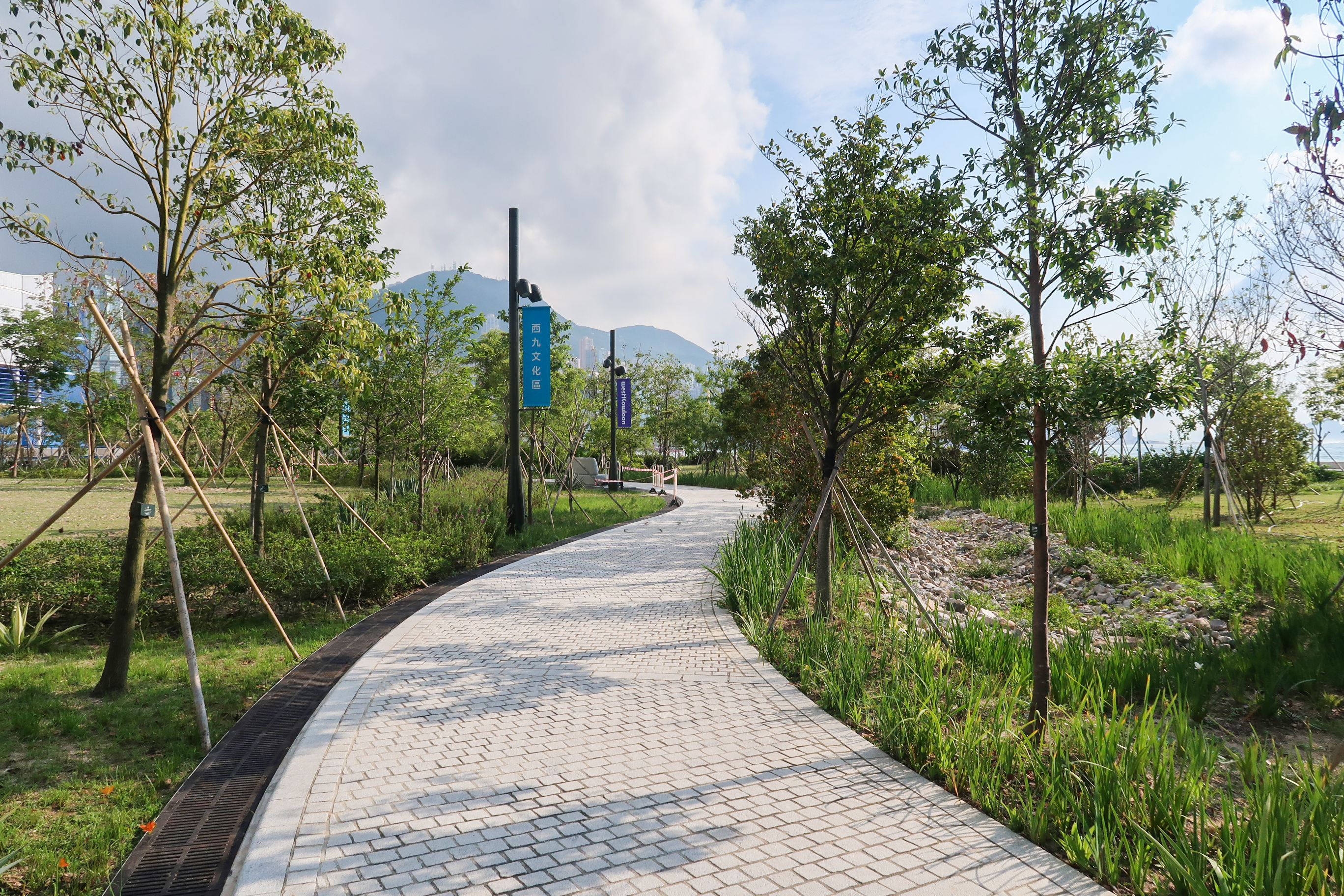 WKCD Art Park Pathway